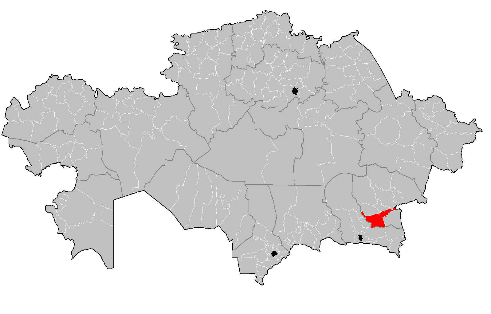 Map of the rayons of Kazakhstan. Created by Rarelibra 16:49, 3 August 2007 (UTC) for public domain use, using MapInfo Professional v8.5 and various mapping resources.